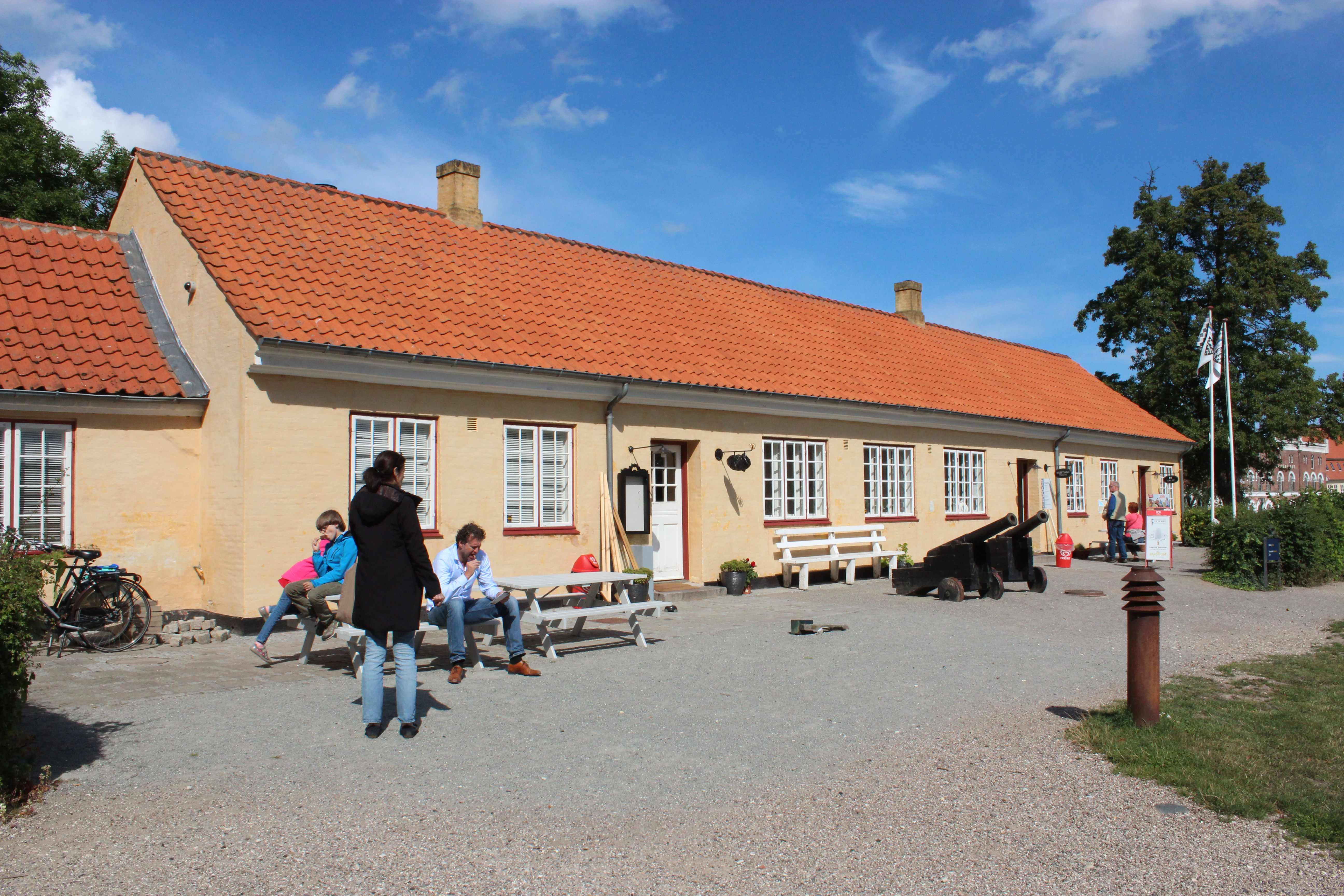 Entrance building to Nyborg Castle. A part of Østfyns Museer.